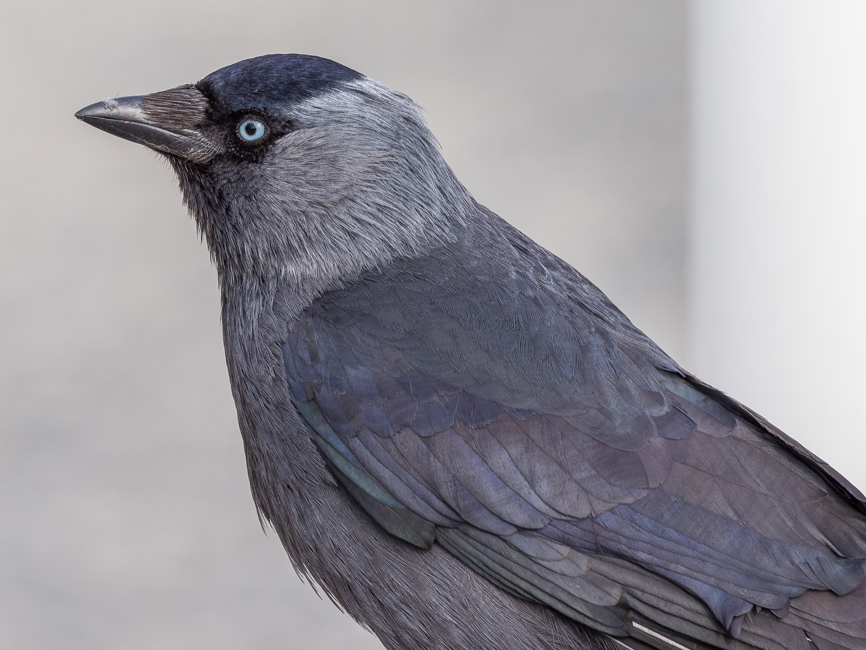 Kaja, Western jackdaw, Corvus monedula, around Vaxholm, Sweden April 2016